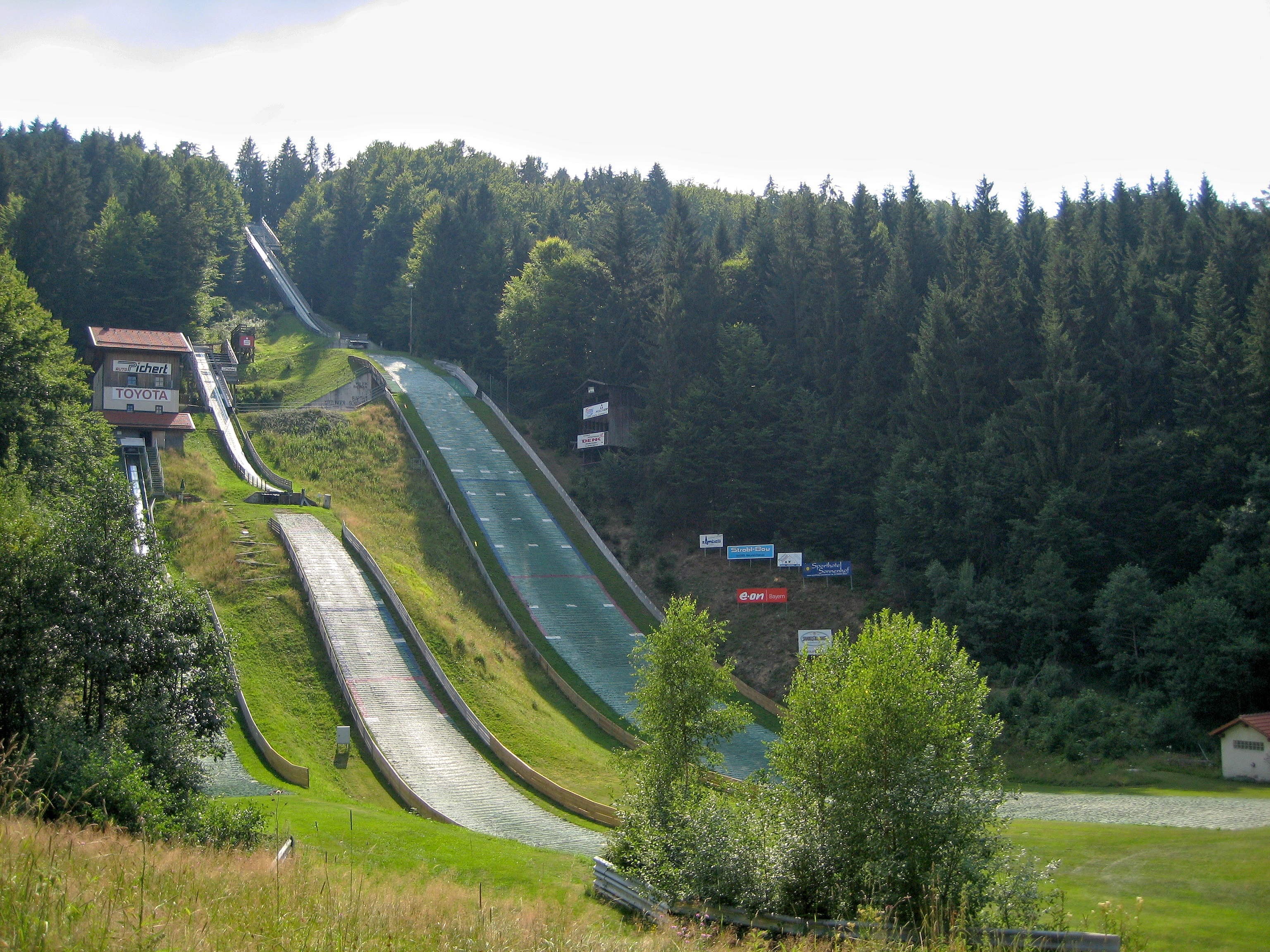 Ski jumping hill of Rastbüchl near Breitenberg, Lower Bavaria